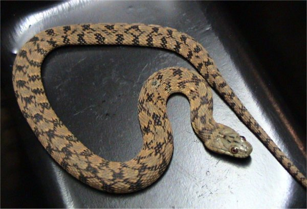 Nerodia rhombifer, Animal courtesy of Austin Reptile Service. Photographer: LA Dawson